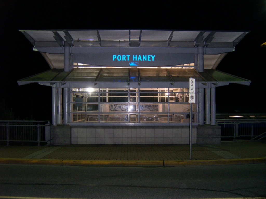 WCE Port Haney Station 中文（香港）: 西岸快車Port Haney站